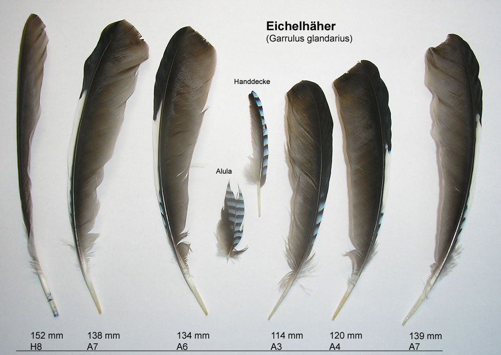 Primary and secondaries of a Jay (Garrulus glandarius).